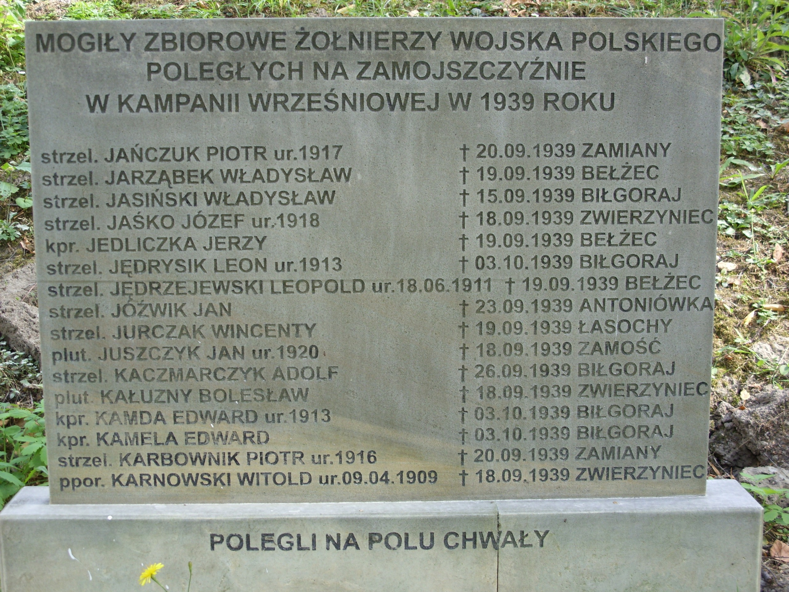 Rotunda Museum in Zamosc. Polish soldiers killed in defence of Poland during World War Two in September 1939